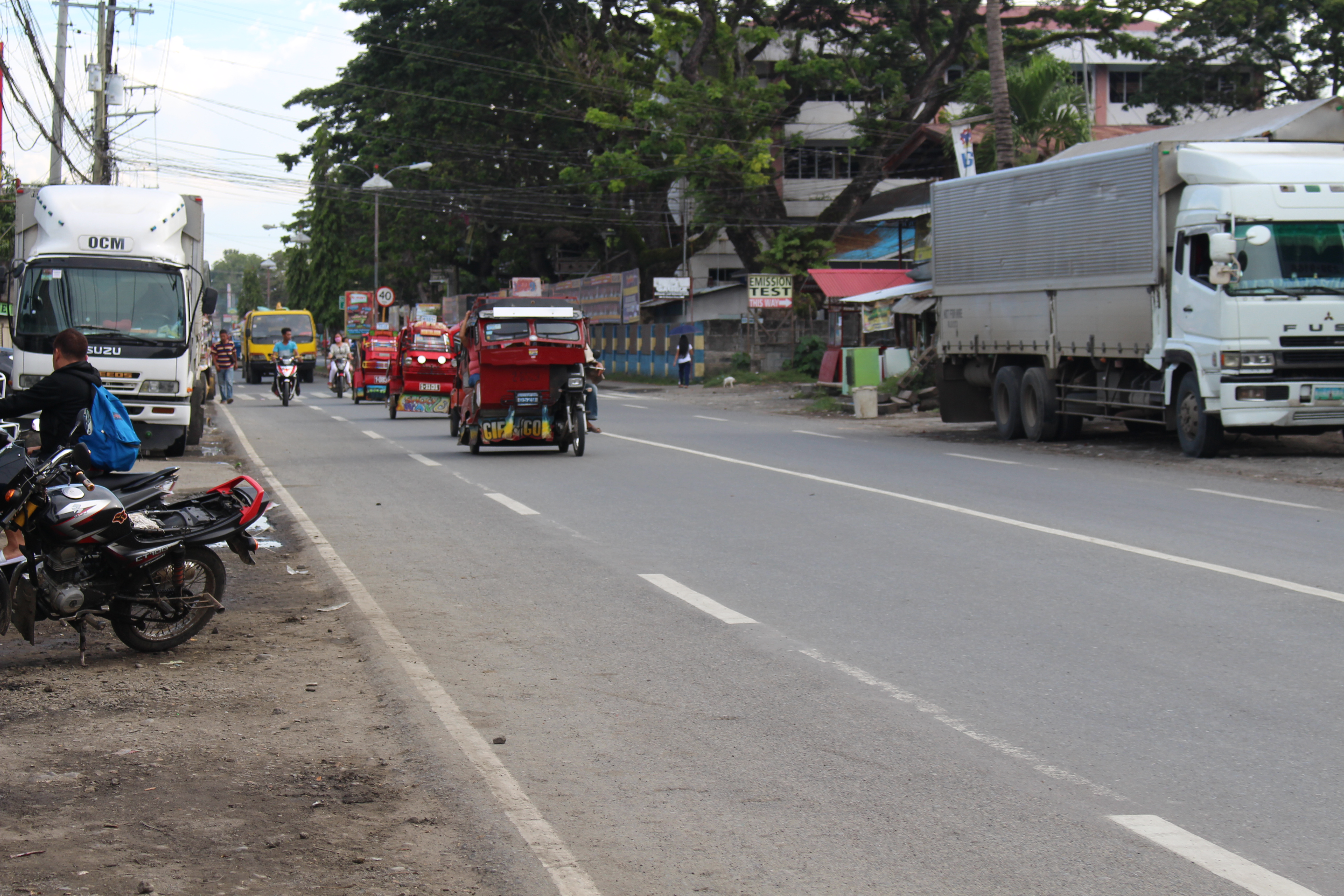 Section of the National Route 940 at Midsayap, North Cotabato